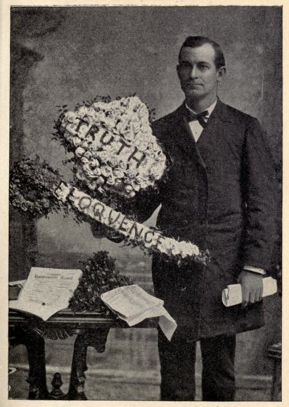 Image of Congressman-elect William Jennings Bryan in 1890